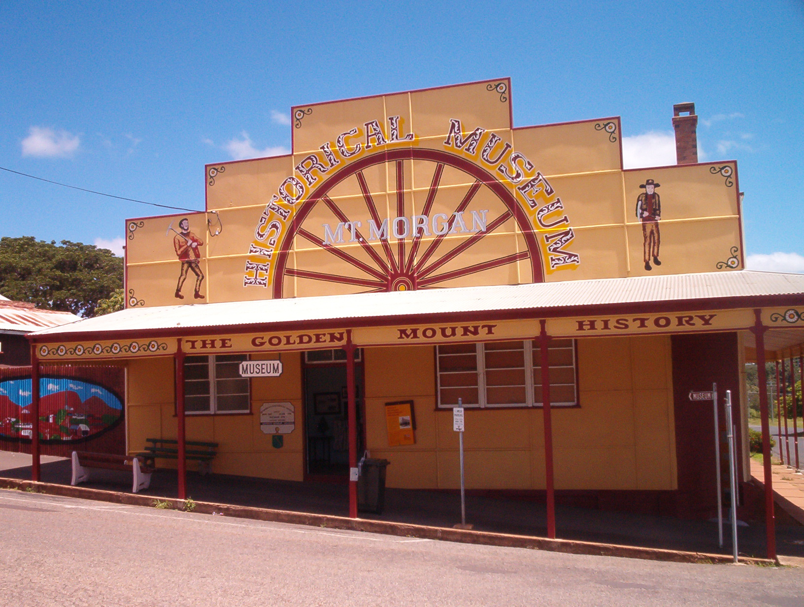 Entrance to the Mount Morgan Museum.